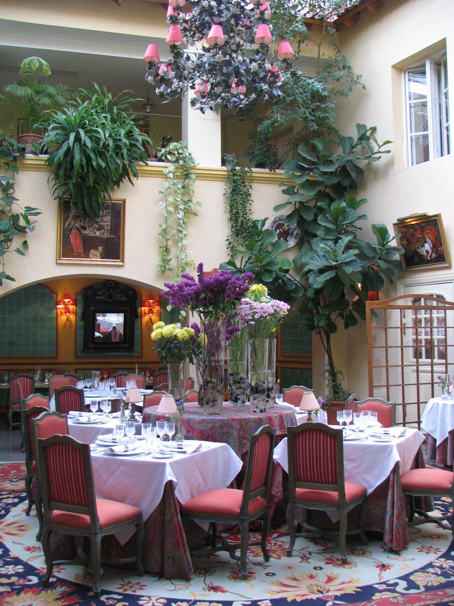 Interior of luxurious Stikliai Hotel, Vilnius, Lithuania